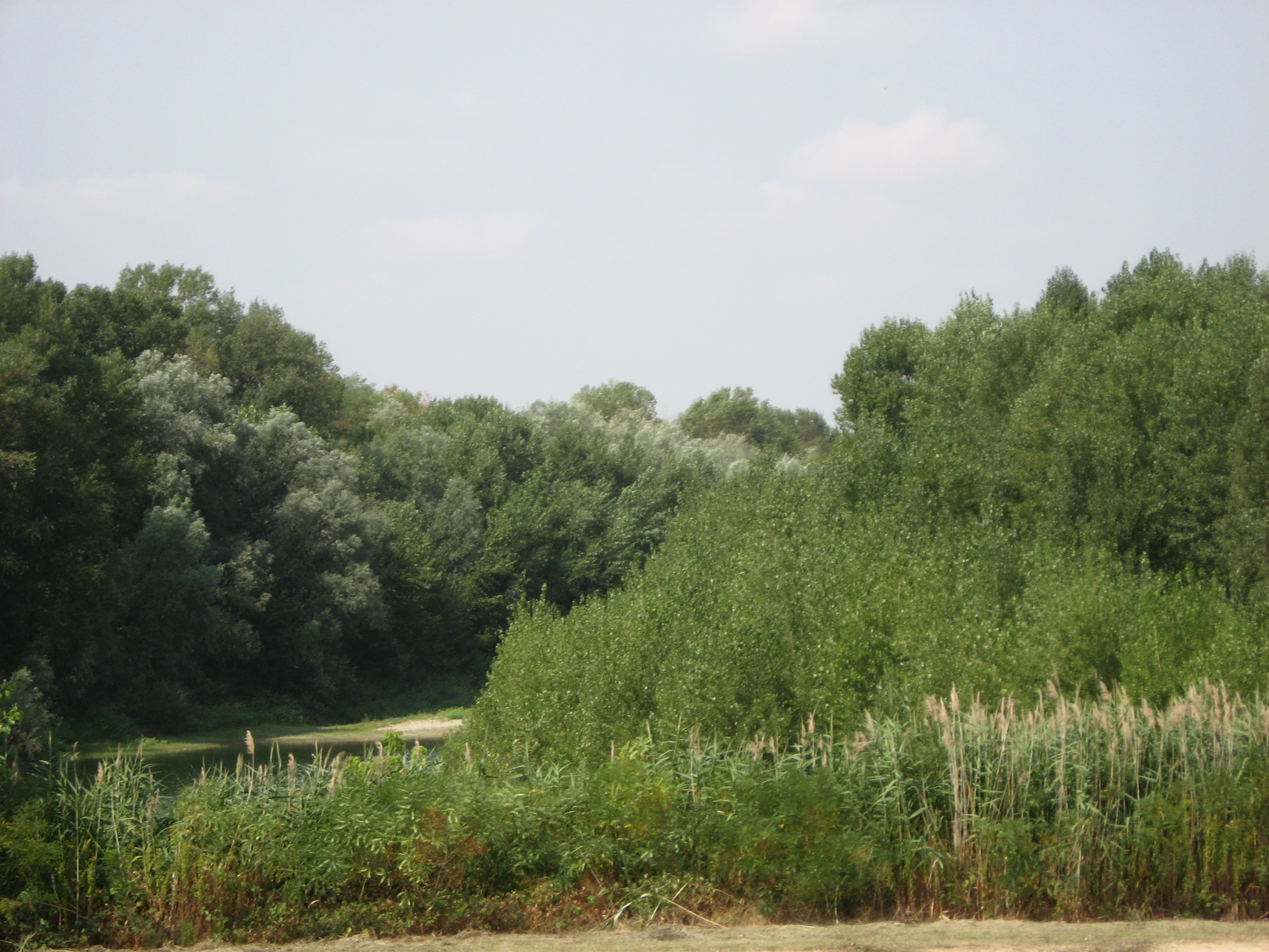 Taro river